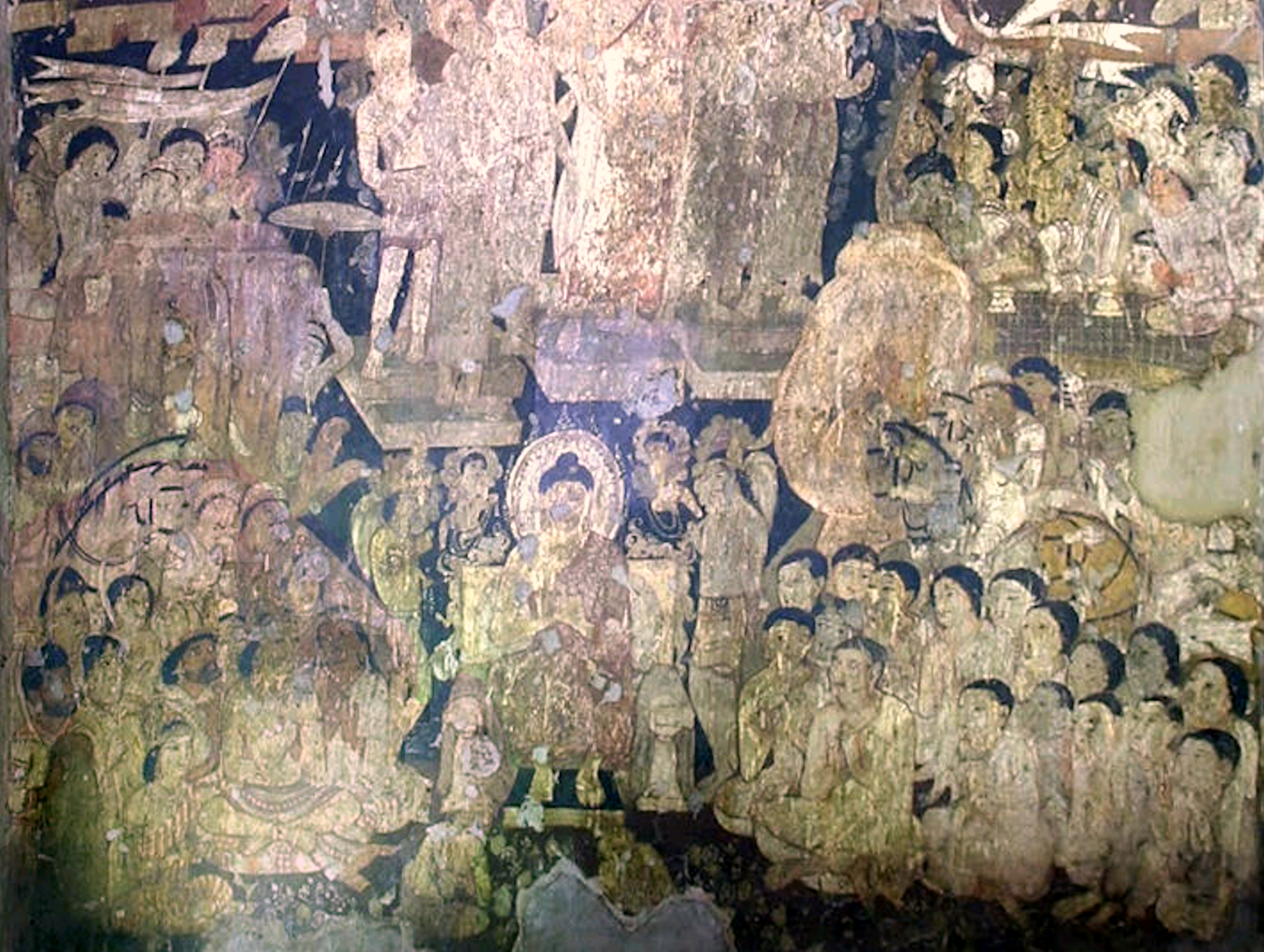 Ajanta Cave 17 frescoe. Detail